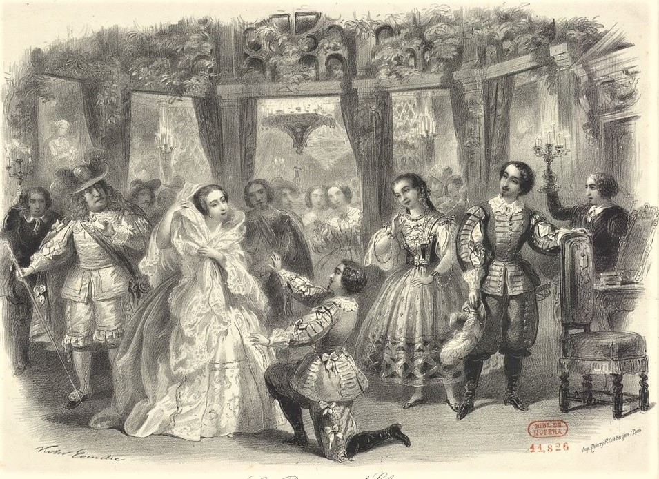 Illustration of a scene from Act 3 of Ambroise Thomas's opera Le roman d'Elvire